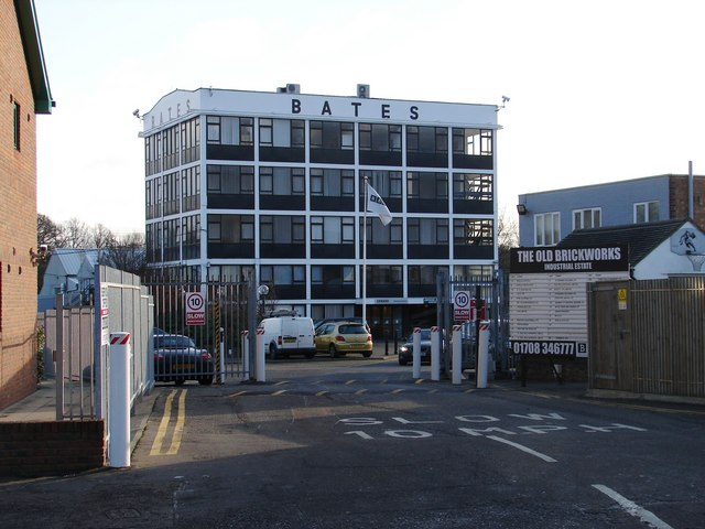 The Old Brickworks Industrial Estate owned and managed by guess who?